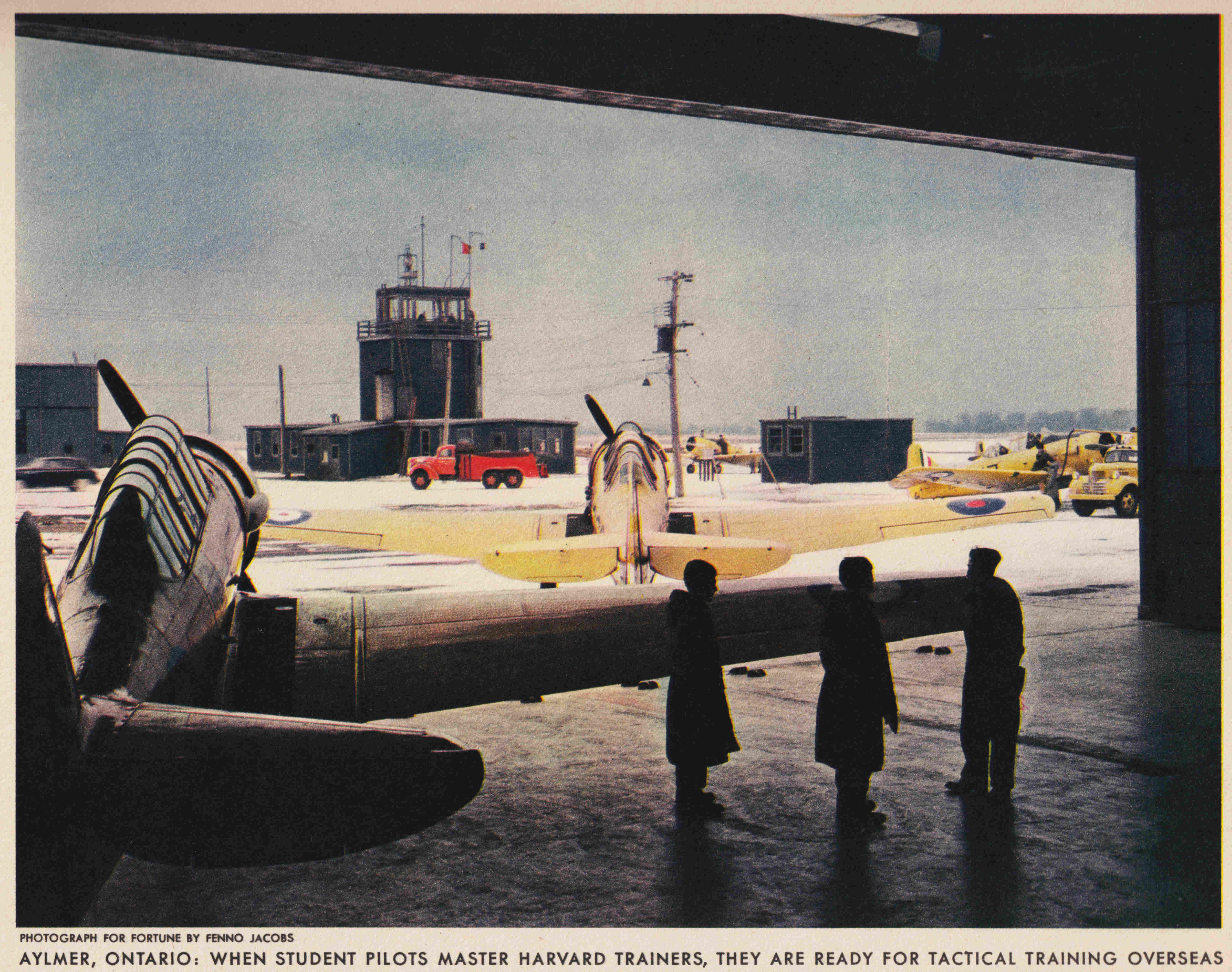 This photograph, taken by the noteworthy U.S. photographer Fenno Jacobs, shows the control tower at British Commonwealth Air Training Plan No. 14 Service Flying Training School, Aylmer, Ontario, Canada, viewed from inside one of the hangars. The station's fire truck and the re-fuelling truck are clearly visible. The date of the photograph is problematic, but it was probably taken in the winter of 1941-1942 before Jacobs joined the U.S. military. The photo is provided through the courtesy of Mr. Shayne Clayton, a private collector.